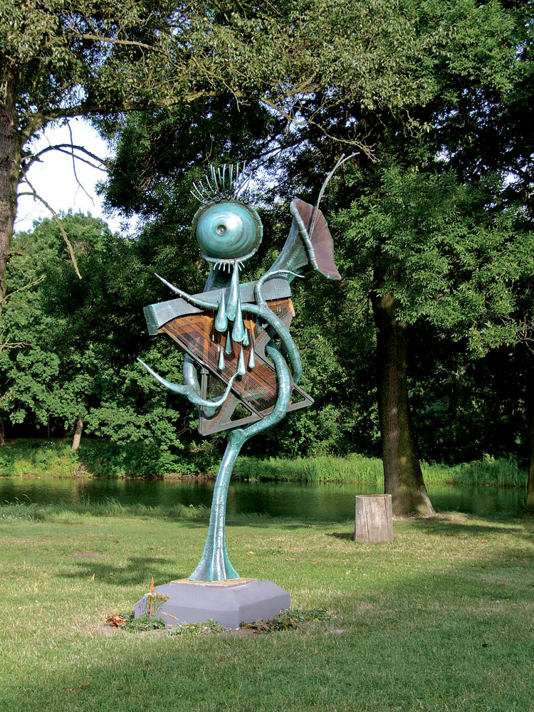 Lubo Kristek: Tree of the Wind Harp, 1992, metal plastic, height: 460 cm